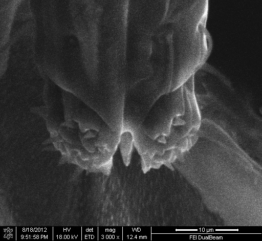 This is a micrograph of the tip of the rostrum (feeding apparatus) of a bed bug. The small teeth at the mandibular stylet tips are visible.